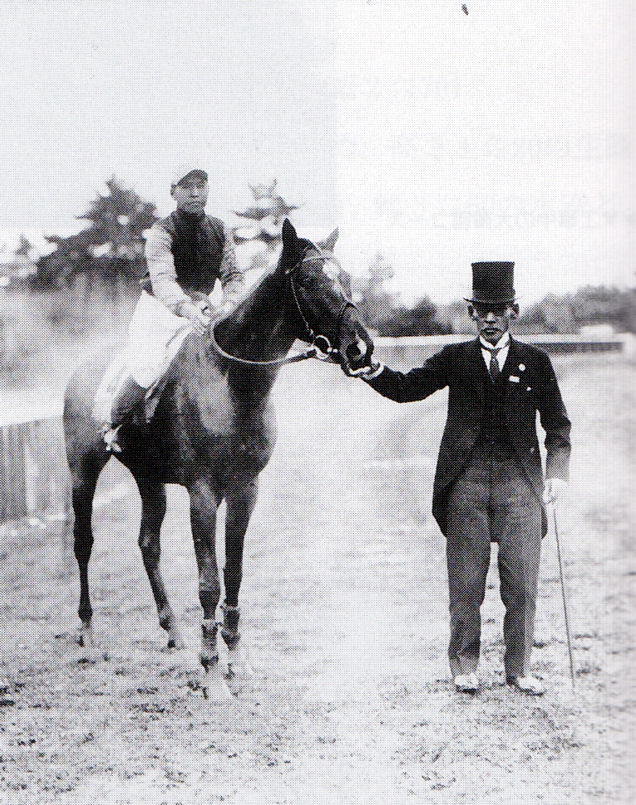 the first Nakayama Daishougai winner Kinten.